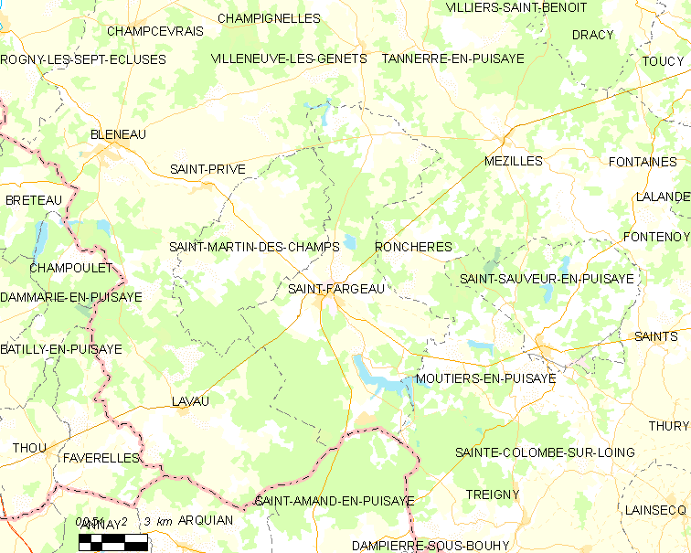 Map of French municipality Saint-Fargeau